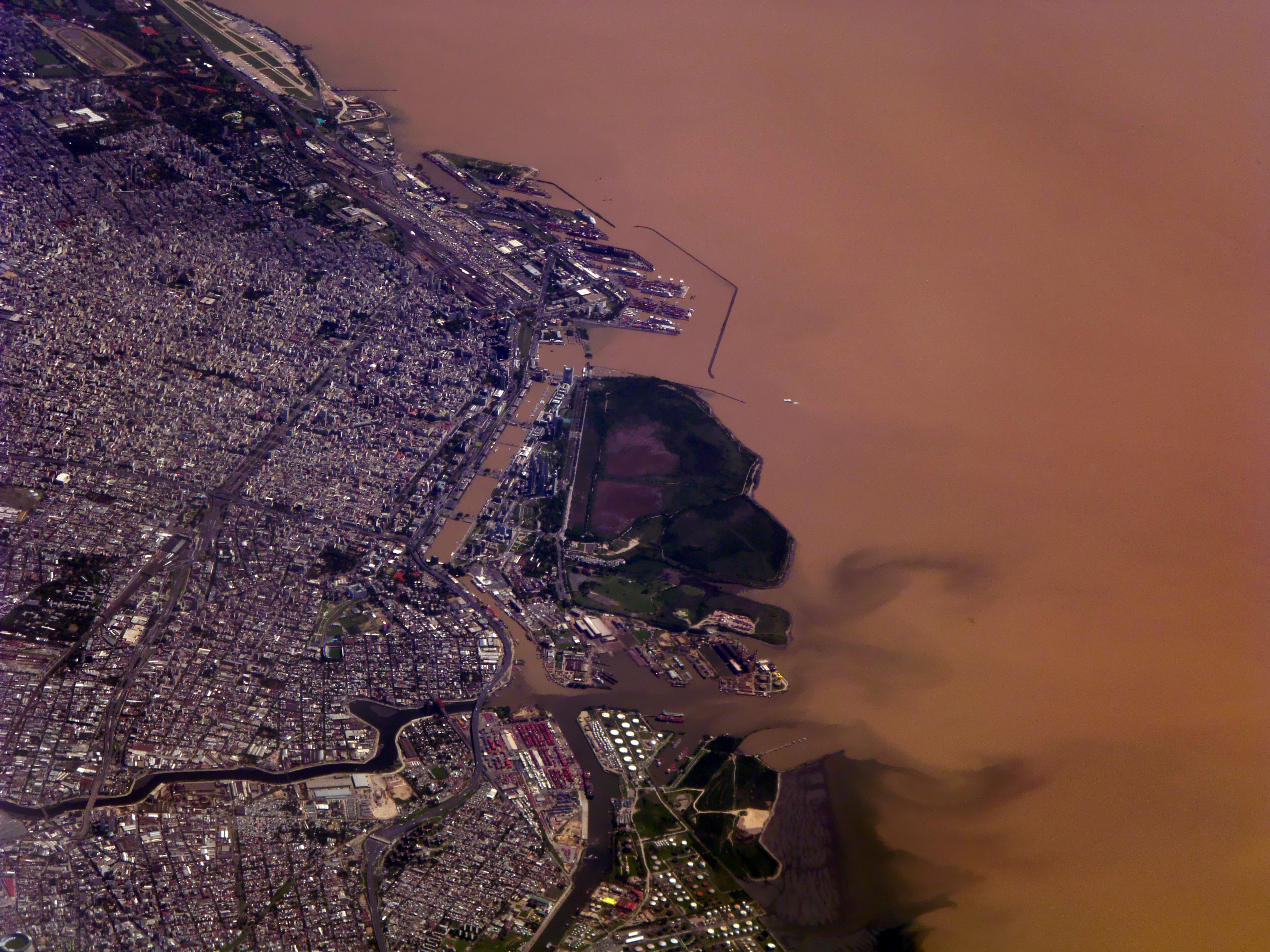 Aerial view of Buenos Aires. I snapped this photo while en route to Montevideo.